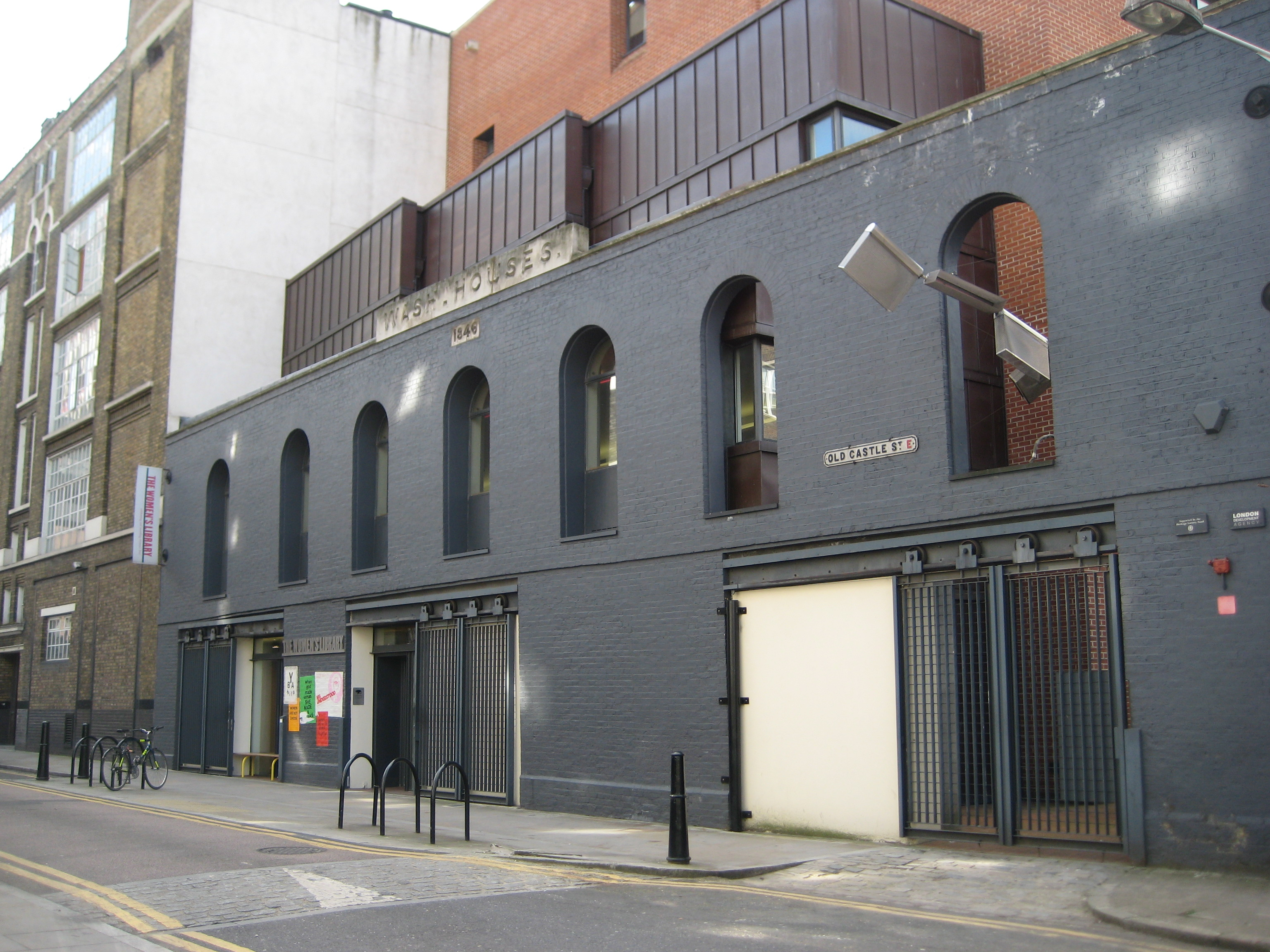 The Women's Library in the old wash house on Converted wash houses, Old Castle Street, London, E1